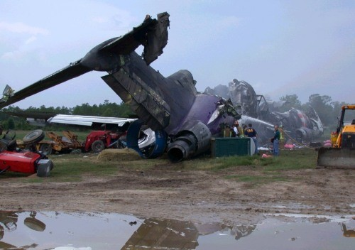 Fedex ExpressFlight 1478（N497FE）wreckage